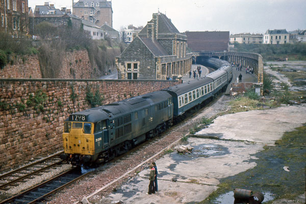 31286 at Clifton Down with a return Zoo excursion, 1976